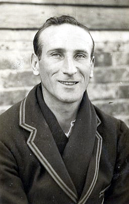 Douglas Jardine in Australia in 1932 Douglas Jardine . Taken from a postcard